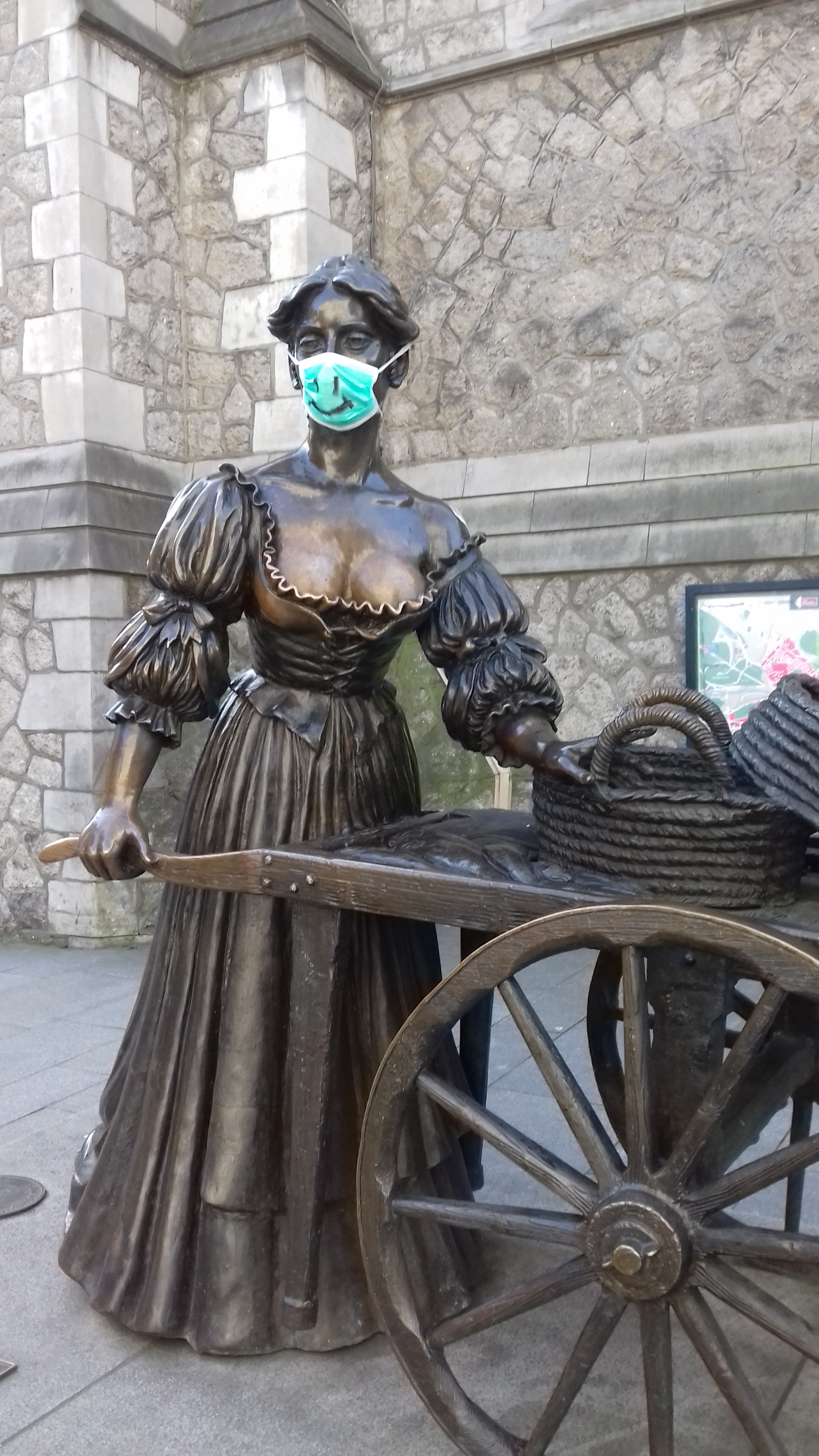 Statue of "Molly Malone" in St Andrew's Street, Dublin. March 2020 during the COVID-19 pandemic. Molly is wearing a mask with a smiley face drawn on it.